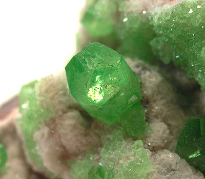 Dolomite, Smithsonite Locality: Tsumeb, Otjikoto (Oshikoto) Region, Namibia (Locality at ) Size: miniature, 4.4 x 4 x 3 cm Cuprian Smithsonite on Dolomite This specimen features a VERY rare style of cuprian smithsonite, such that I believe it was only found in one pocket (early 1980s?). The style is defined by isolated, gemmy, sharp crystals as you see in the closeup, to 8mm in size. Usually , cuprian smithsonite from here is rhombohedral or a simple druse but these are more elongated and look more prismatic in habit. However, these are real, euhedral crystals of superb quality. A rich druse of glistening, sugary microcrystals contrasting against the dolomite matrix completes the visual appeal here! I have seen only one other of this type for sale recently, and that from the Sussman collection and at a much higher price for comparable quality (though the piece was larger, too)